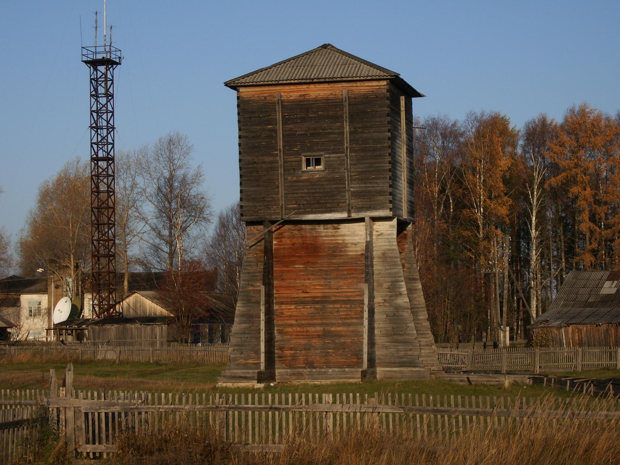 Samoded village. Arkhangelsk oblast, Russia